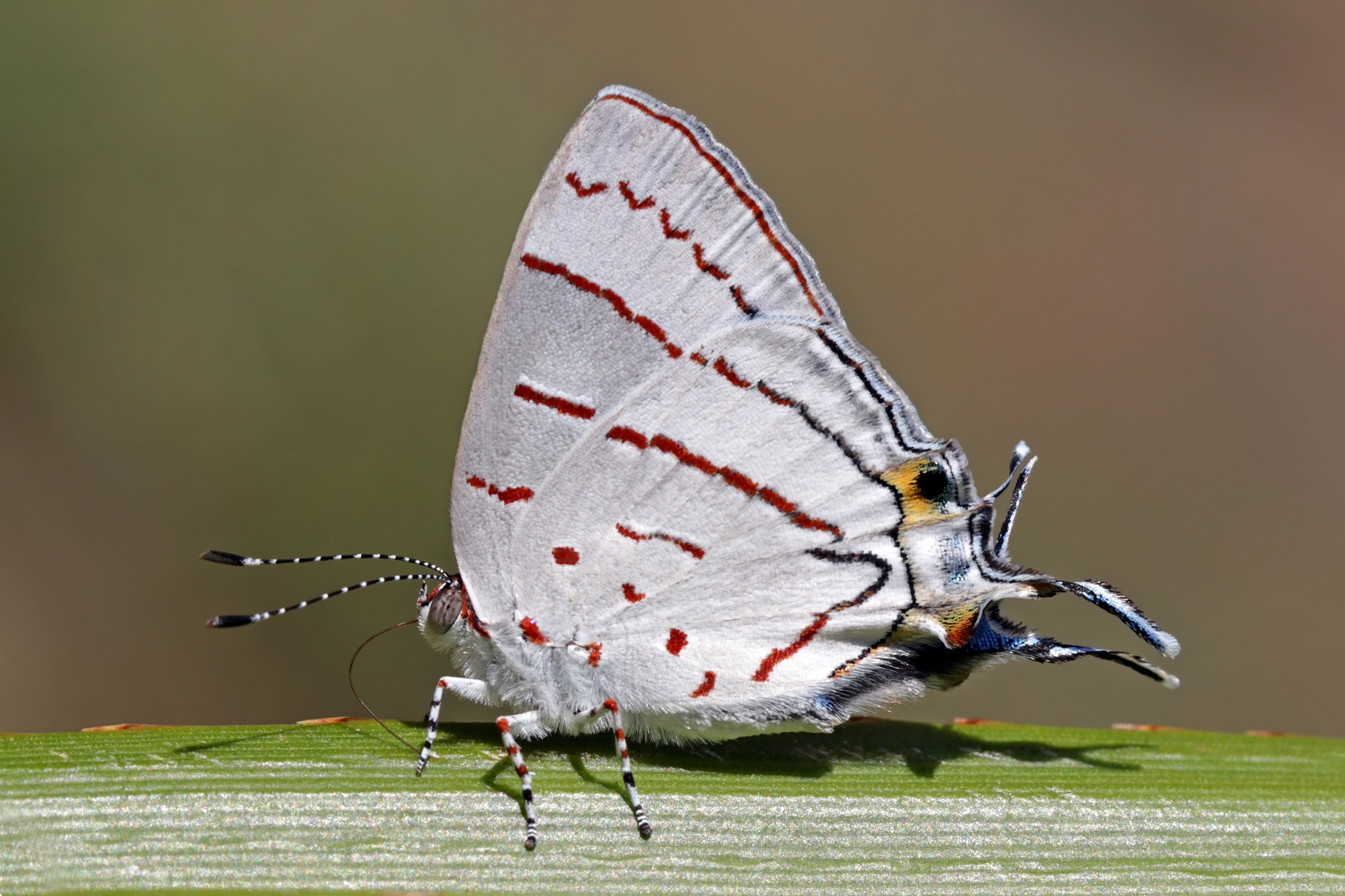 Hemiolaus cobaltina, Isalo National Park, Madagascar. Identified by Dr David Lees. Note the first version uploaded contains serious processing errors.